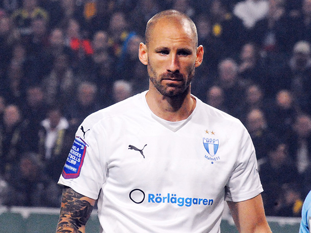 Johan Wiland during the men's Fotbollsallsvenskan soccer game AIK-Malmö FF (2-1) at the Friends Arena in Solna, Sweden on 4 October 2015.